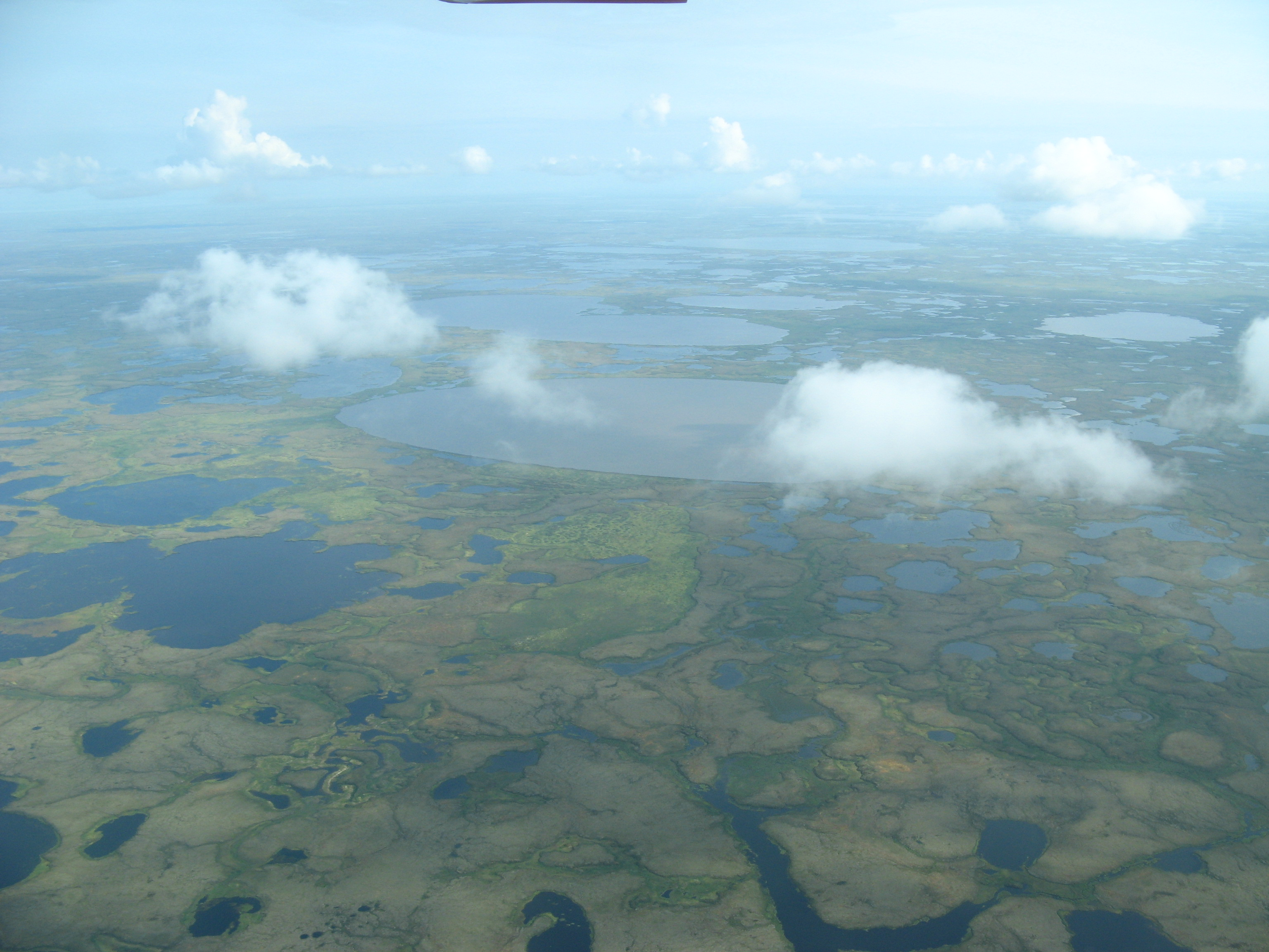 Aerial view of Nunivak Island